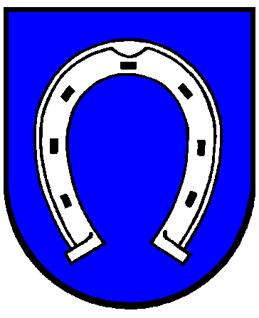 Coat of arms of Michelbach in Gaggenau